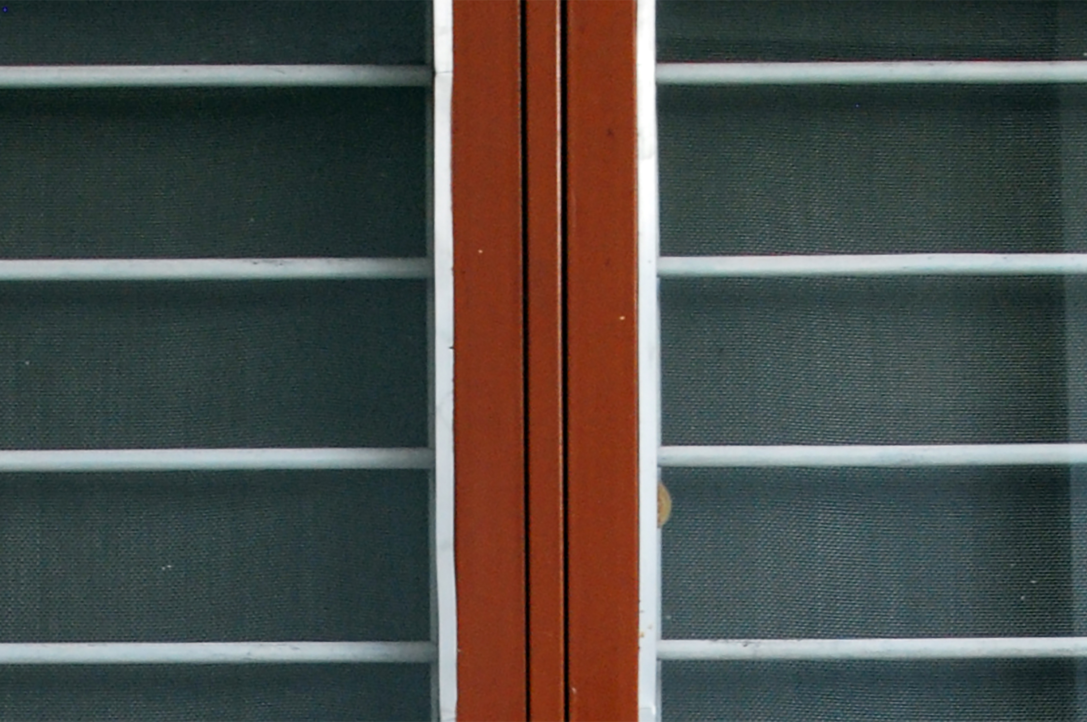 Net window blind, BBM Block, Christ University, Bangalore, Karnataka, India.